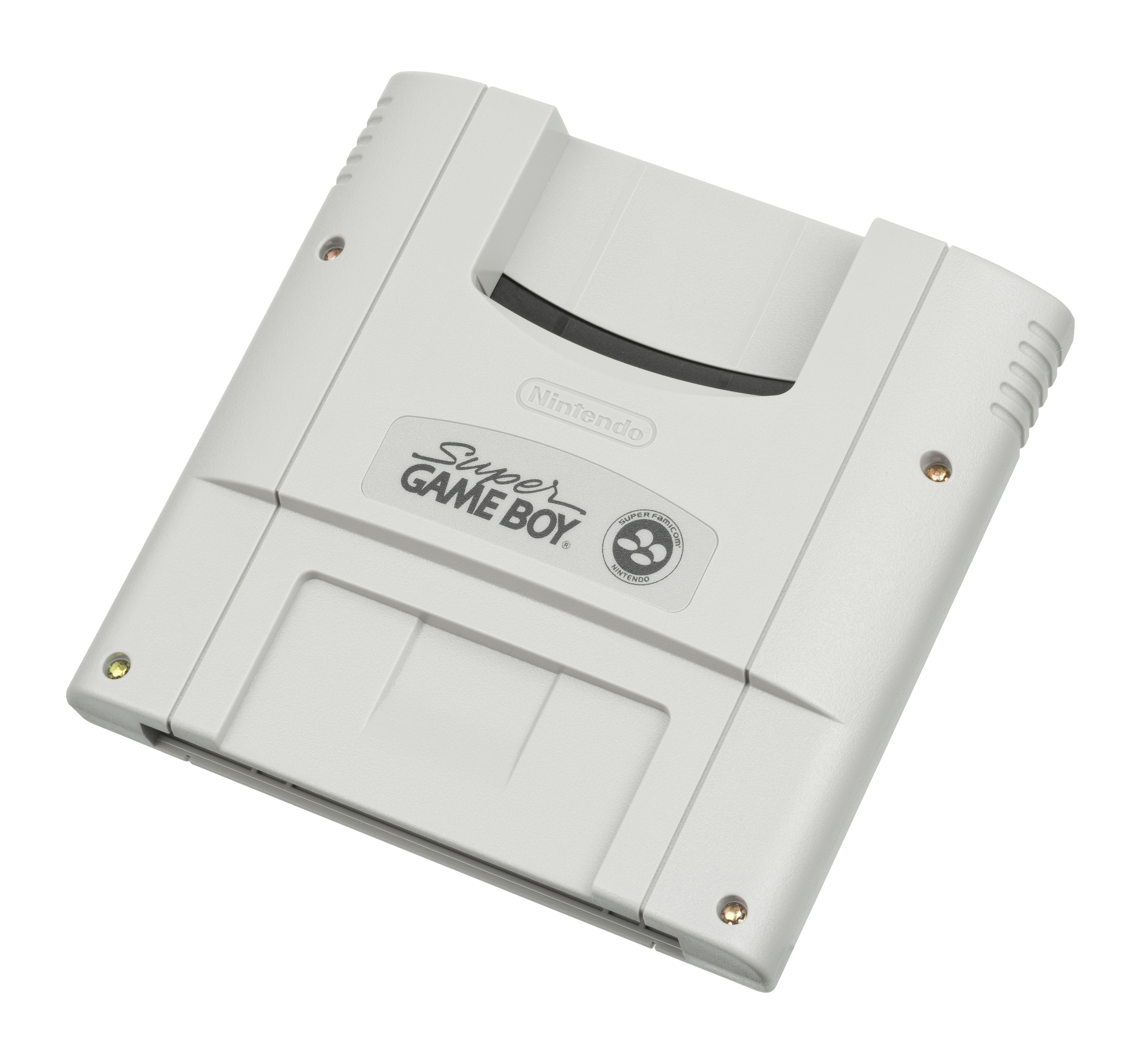 The Super Game Boy for the Super Famicom video game console. Developed and released by Nintendo as a way to play Game Boy games on your television, the Super Game Boy contains a "Game Boy on a board", only using the Super Famicom to handle video out and controller input.